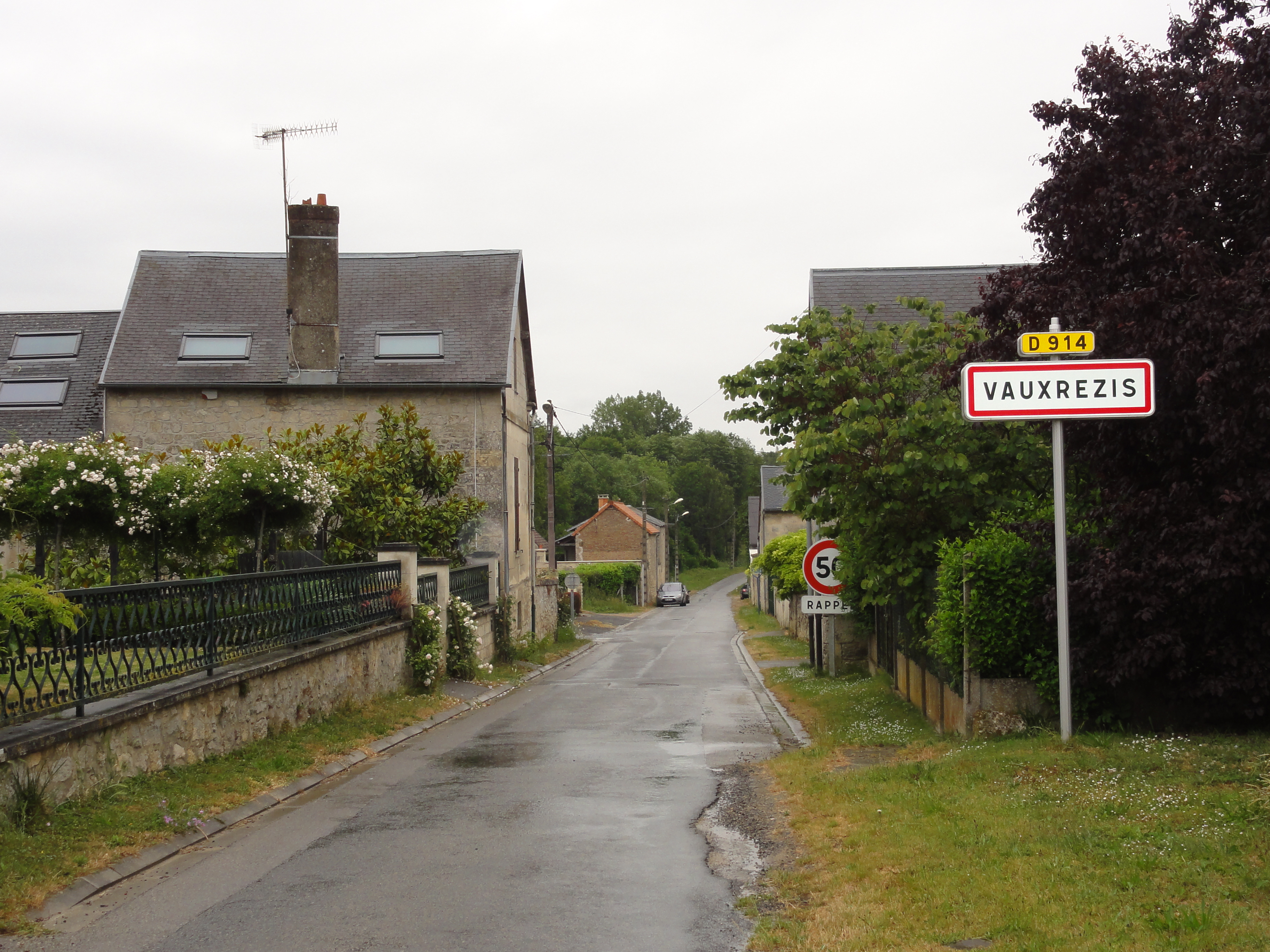 Vauxrezis (Aisne) city limit sign